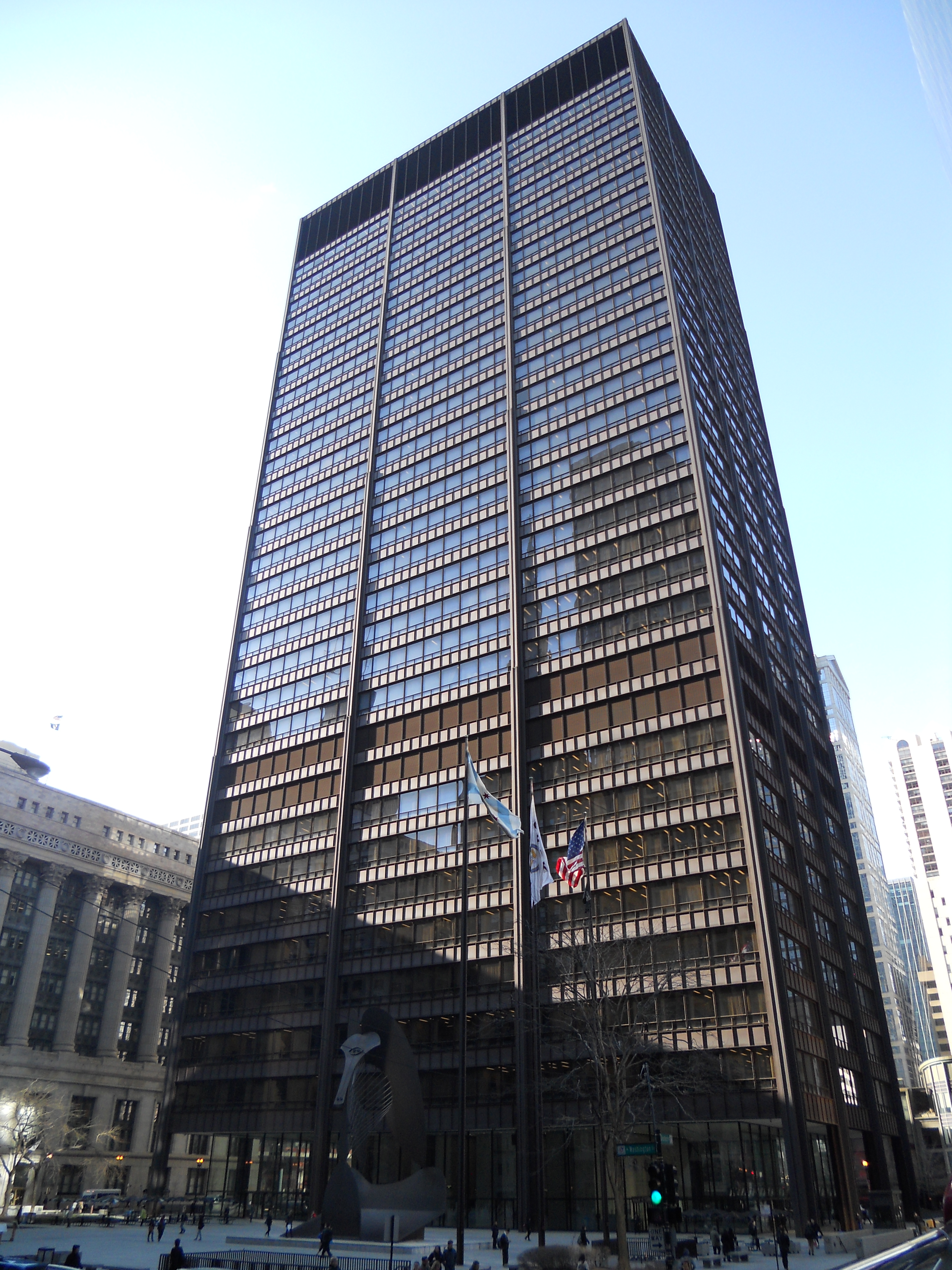 Richard J. Daley Center, Chicago.